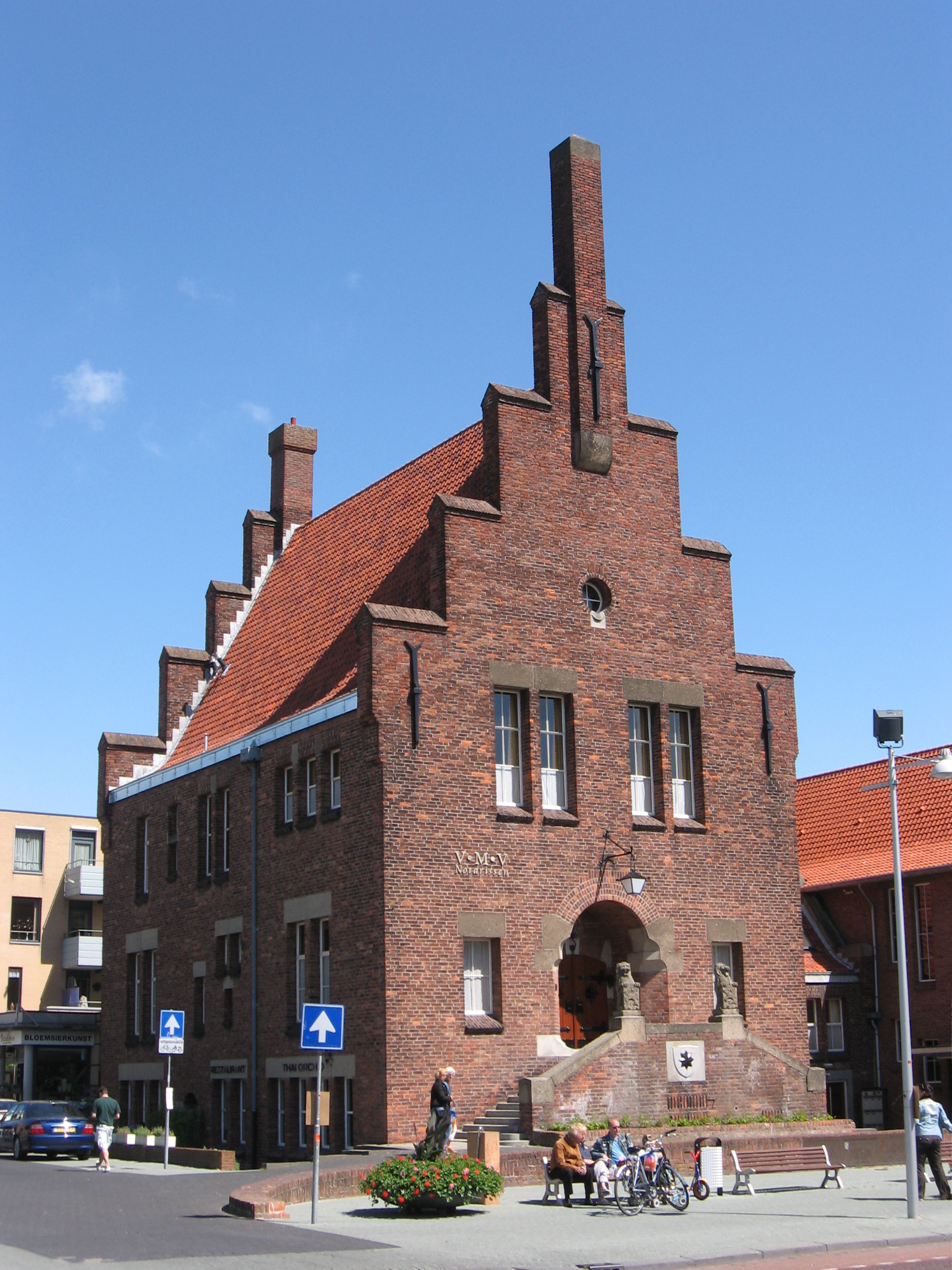 Raadhuis, Plein 13, Wateringen